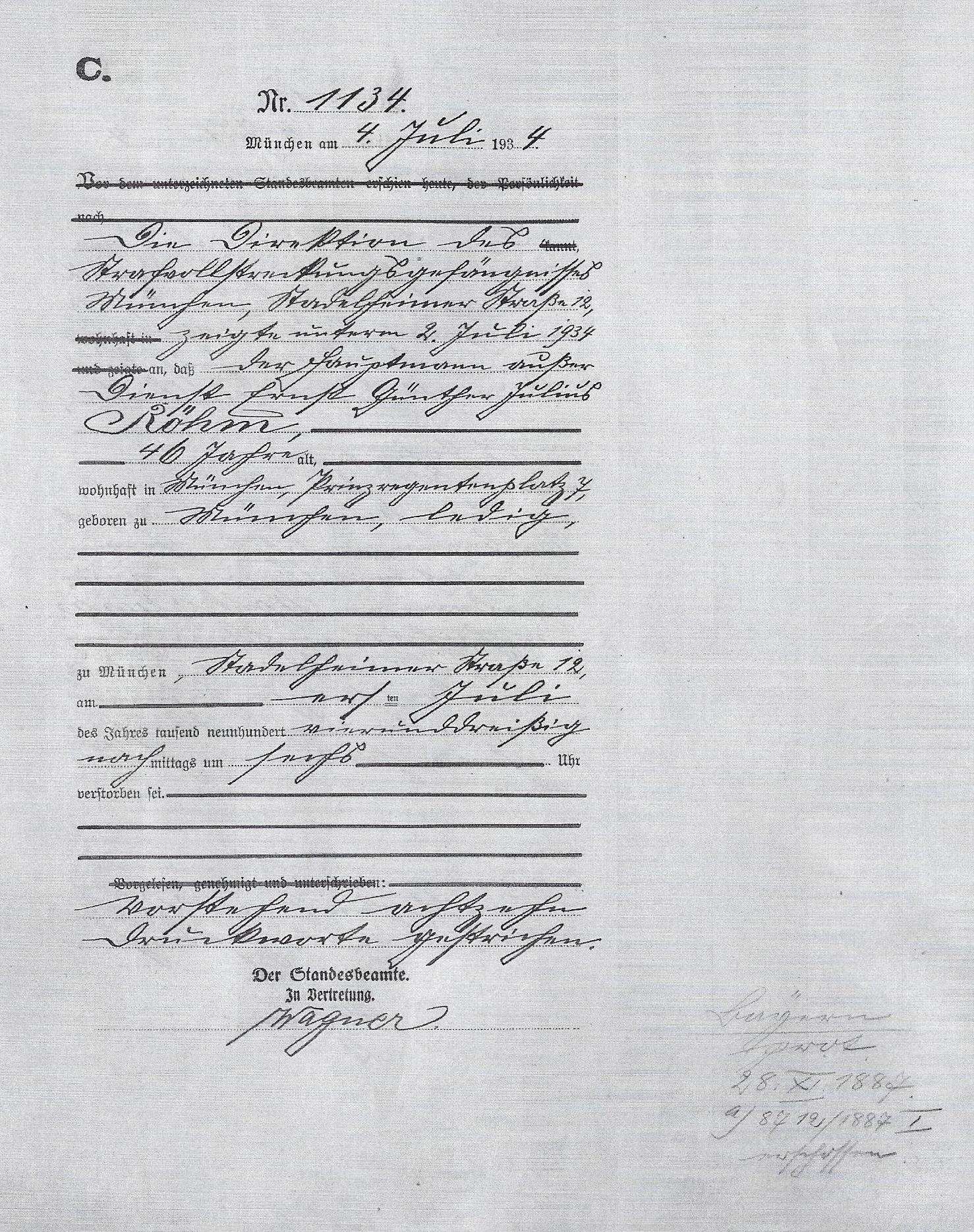 Death certificate of Ernst Röhm (1887-1934).